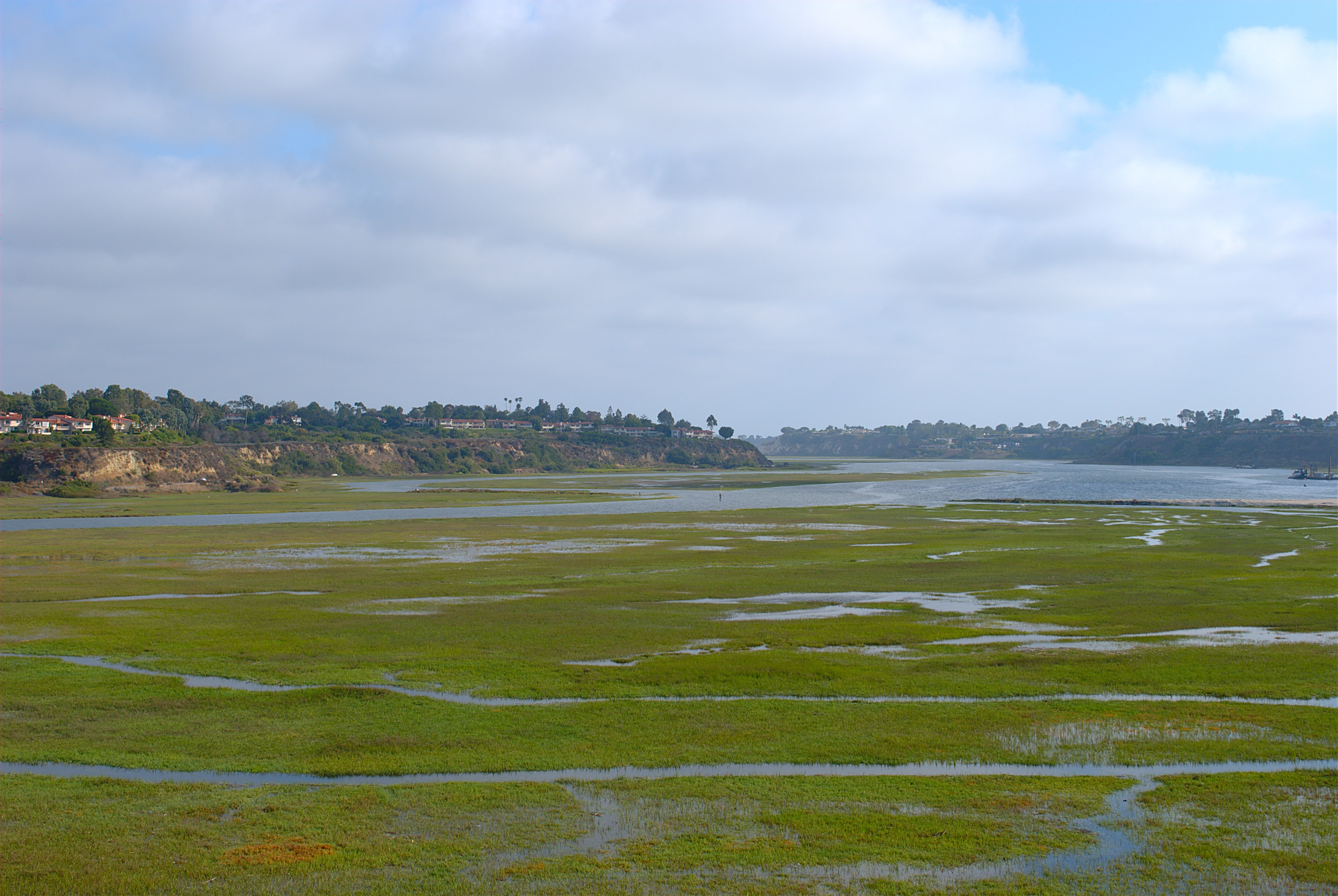 Upper Newport Bay, looking south.